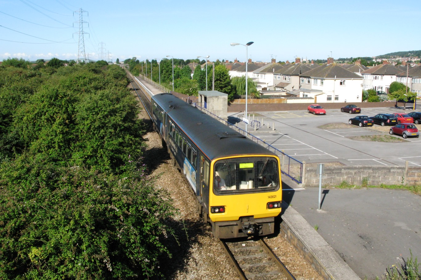 First Great Western 143621 (still in Wessex Trains livery) calls at Weston Milton railway station, North Somerset, England.